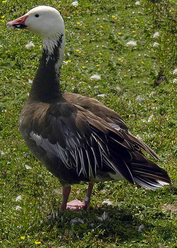 Lesser Snow Goose (Anser caerulescens) in “blue” phase plumage, at Slimbridge Wildfowl and Wetlands Centre, Gloucestershire, England